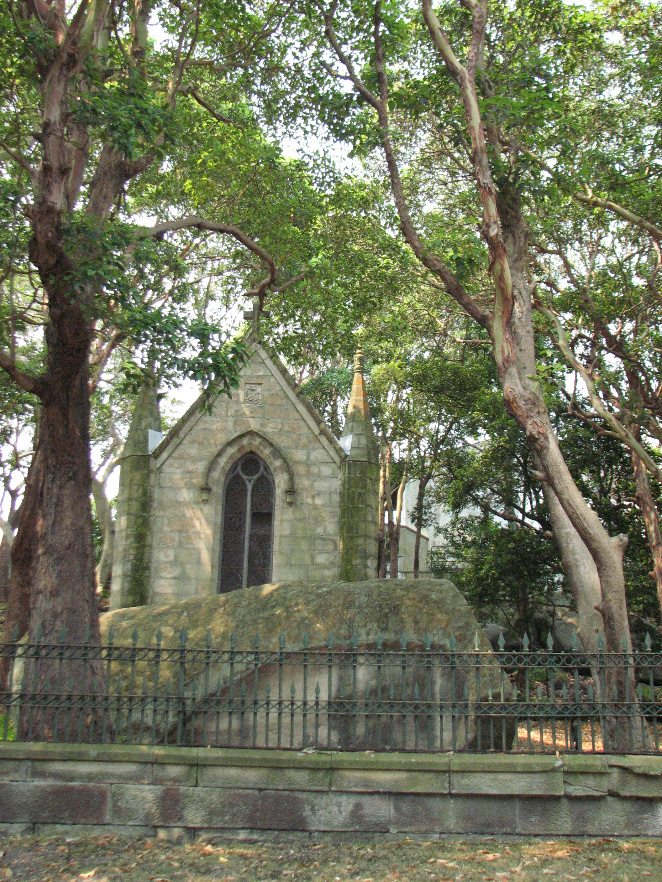 The Mausoleum of William Charles Wentworth is listed on the New South Wales State Heritage Register.